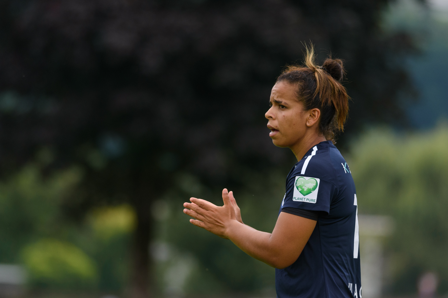 Yaribeth Ulacio during a friendly vs FFC Wacker München